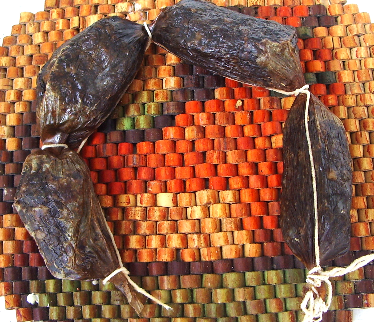 Murcian dried black pudding